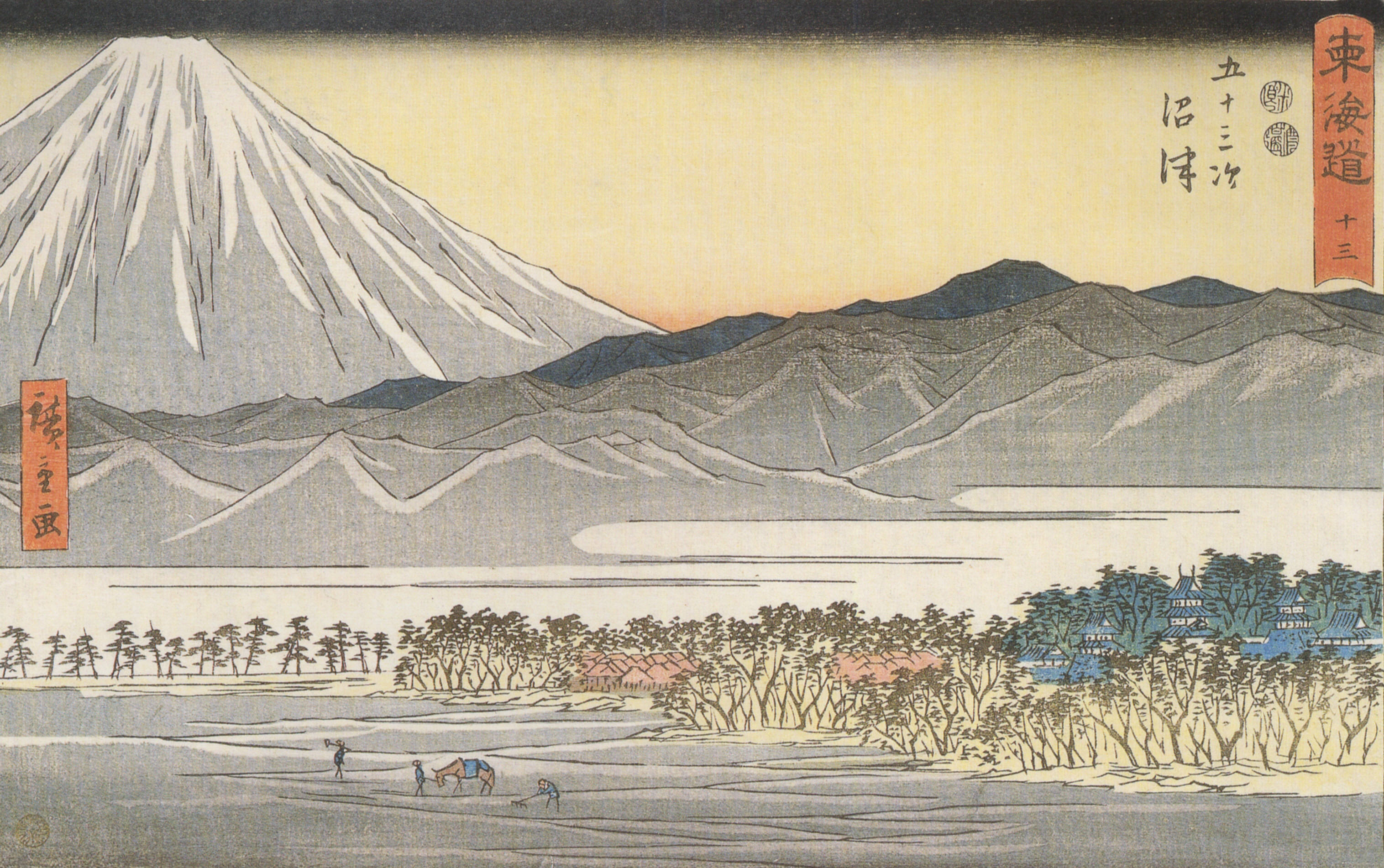 From the 53 Stations of the Tokaido, Reisho edition (c. 1850). This is station 13, Numazu.